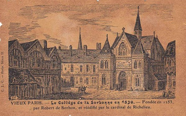 Sorbonne college, Paris, as in 1530